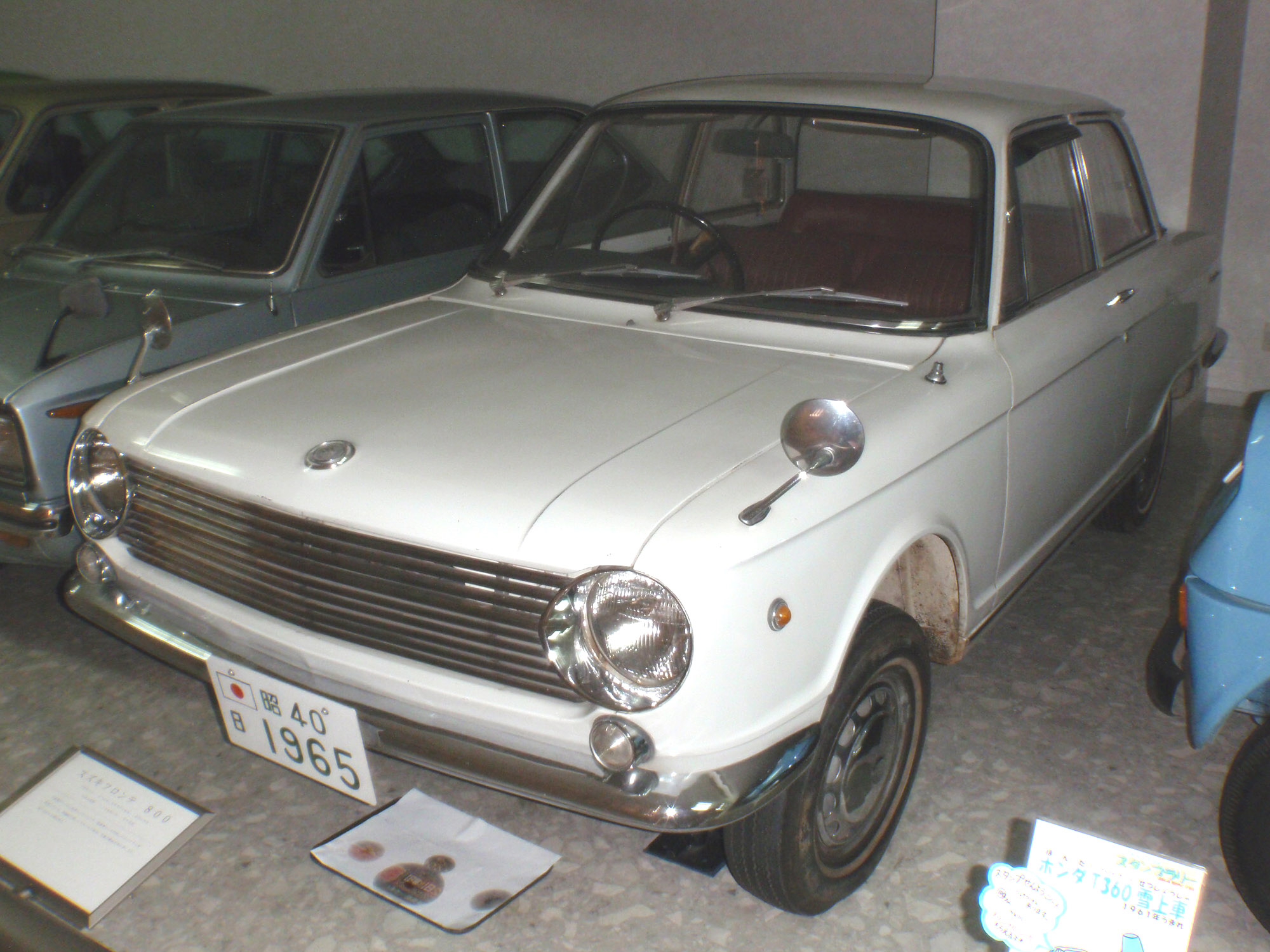 1965 Suzuki Fronte 800 at the Motorcar Museum of Japan